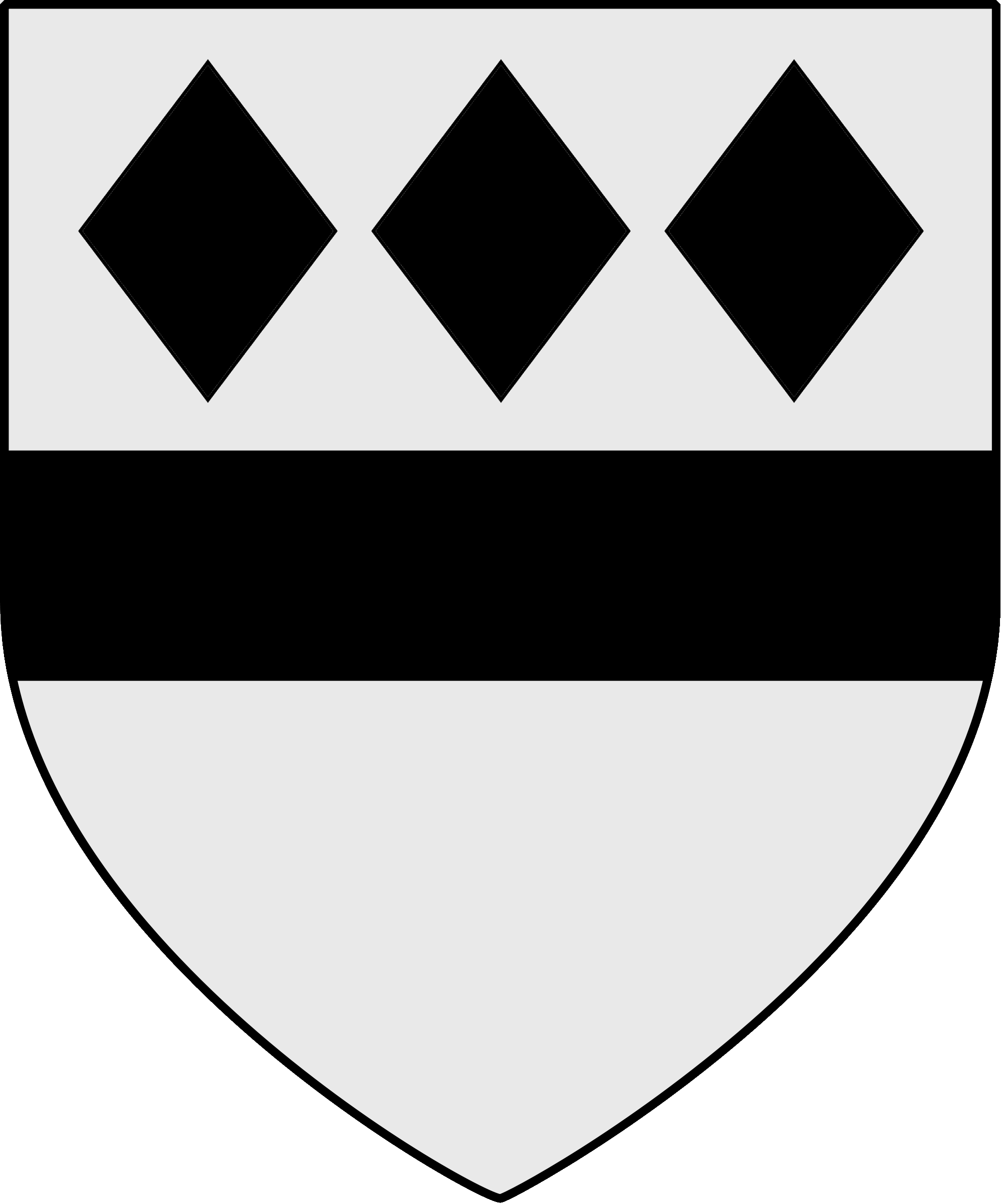 Coat of Arms of the former Lords Aston of Forfar.